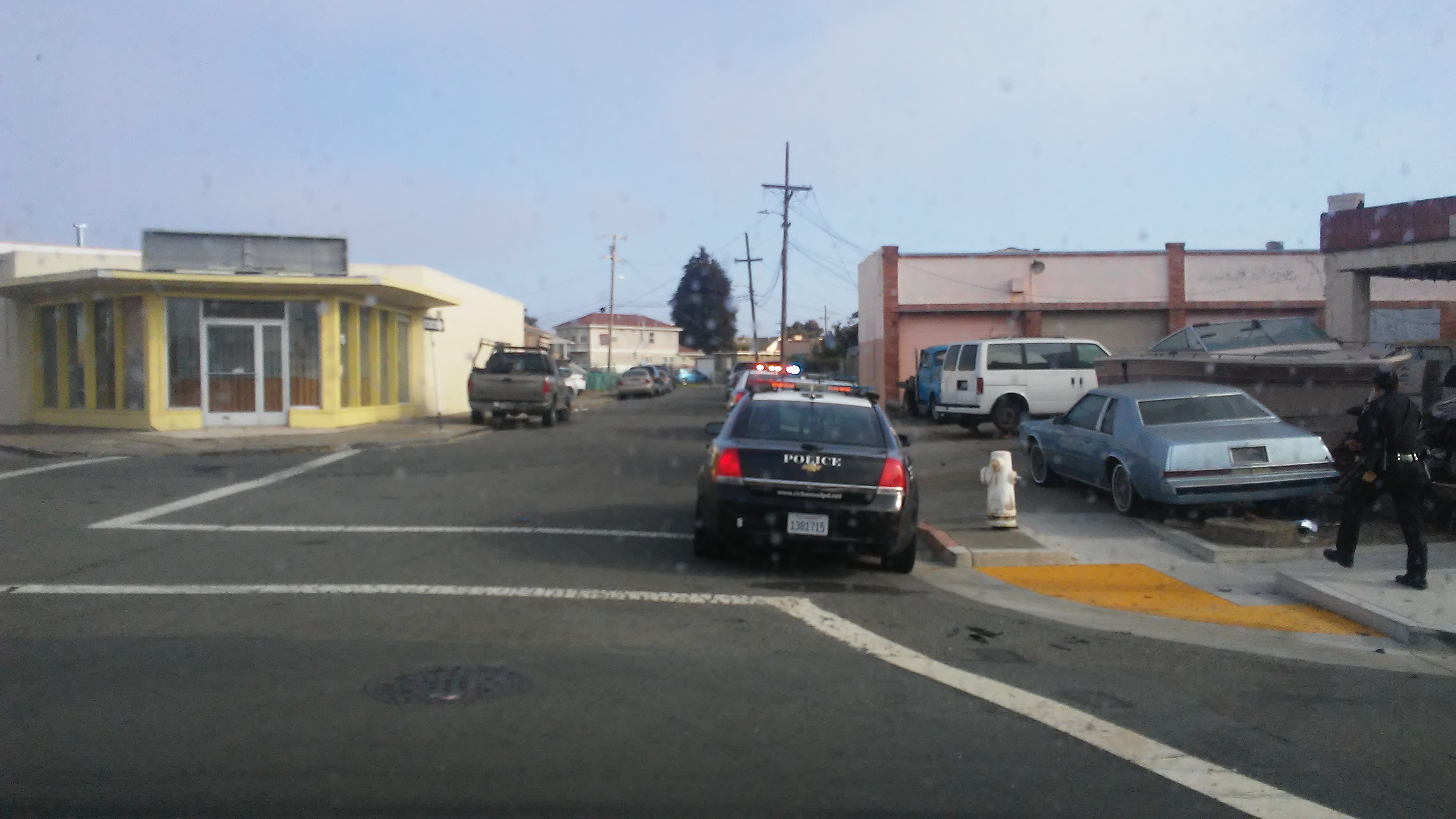 A Richmond PD (California) police officer and car